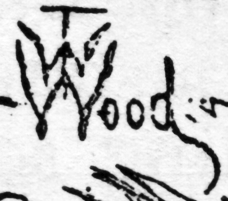 Combined monogram and signature of T. W. Wood, zoological illustrator. From illustration of Argus Pheasant in Darwin's Descent of Man, 1874.